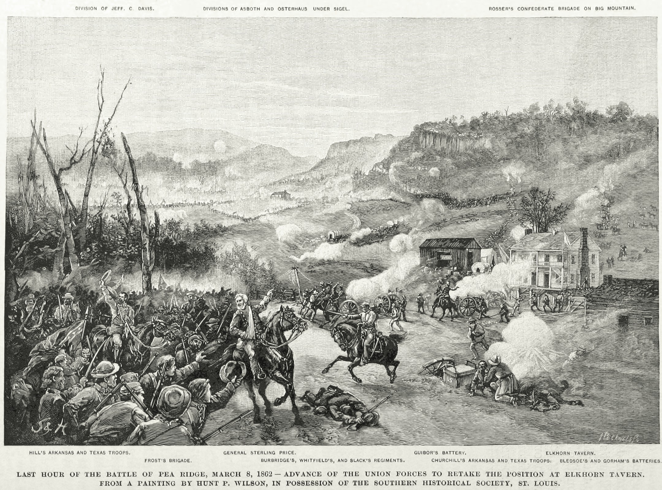 The last hour of the Battle of Pea Ridge. Union forces advance to retake the position near Elkhorn Tavern.